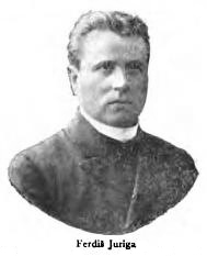 Ferdinand Juriga